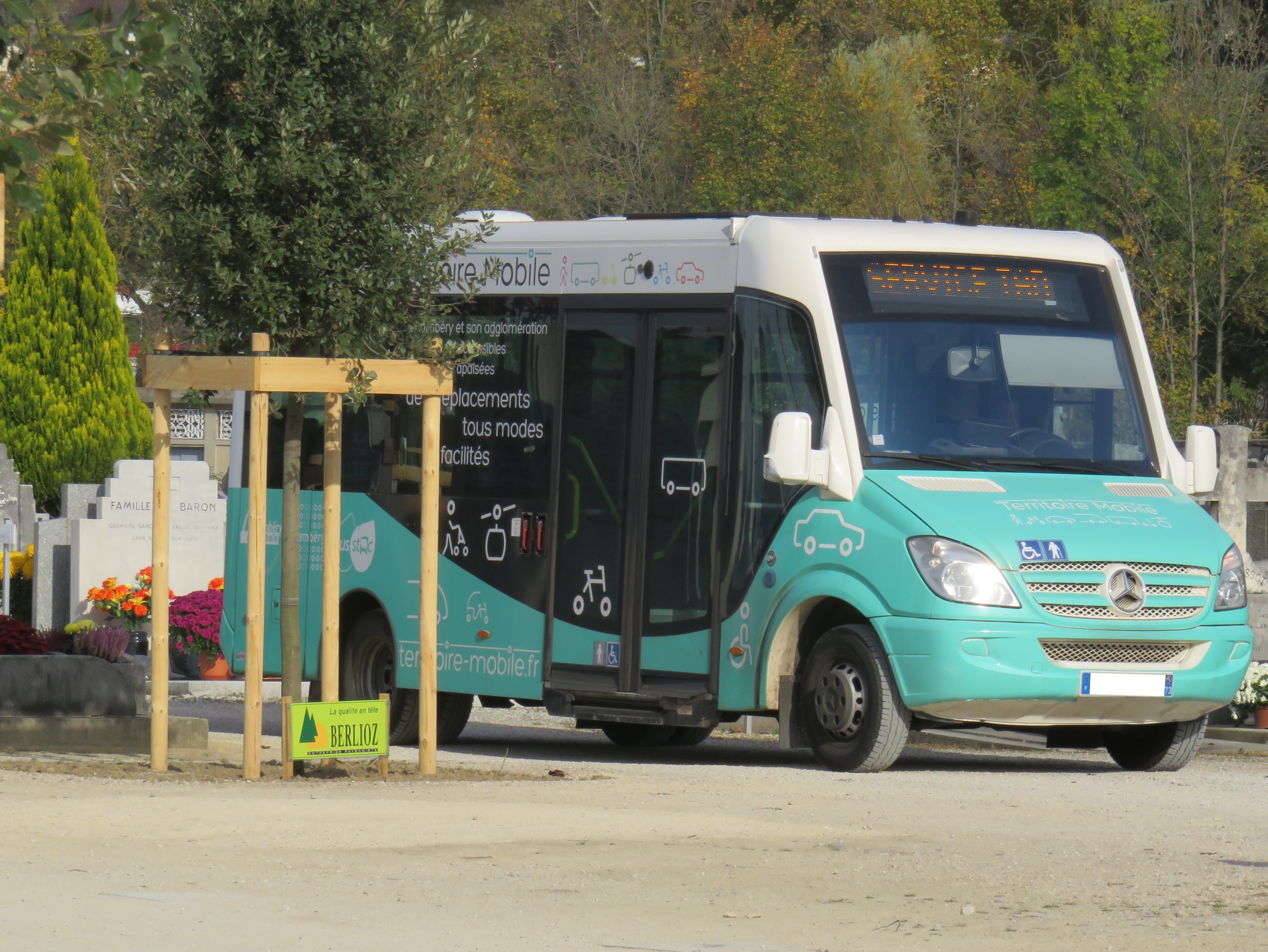 A Mercedes-Benz Vehixel Cityos (n°1057 of the French agglomeration community Grand Chambéry) in the paths of Charrière Neuve Cemetery (Chambéry, France) on November 1, 2017.